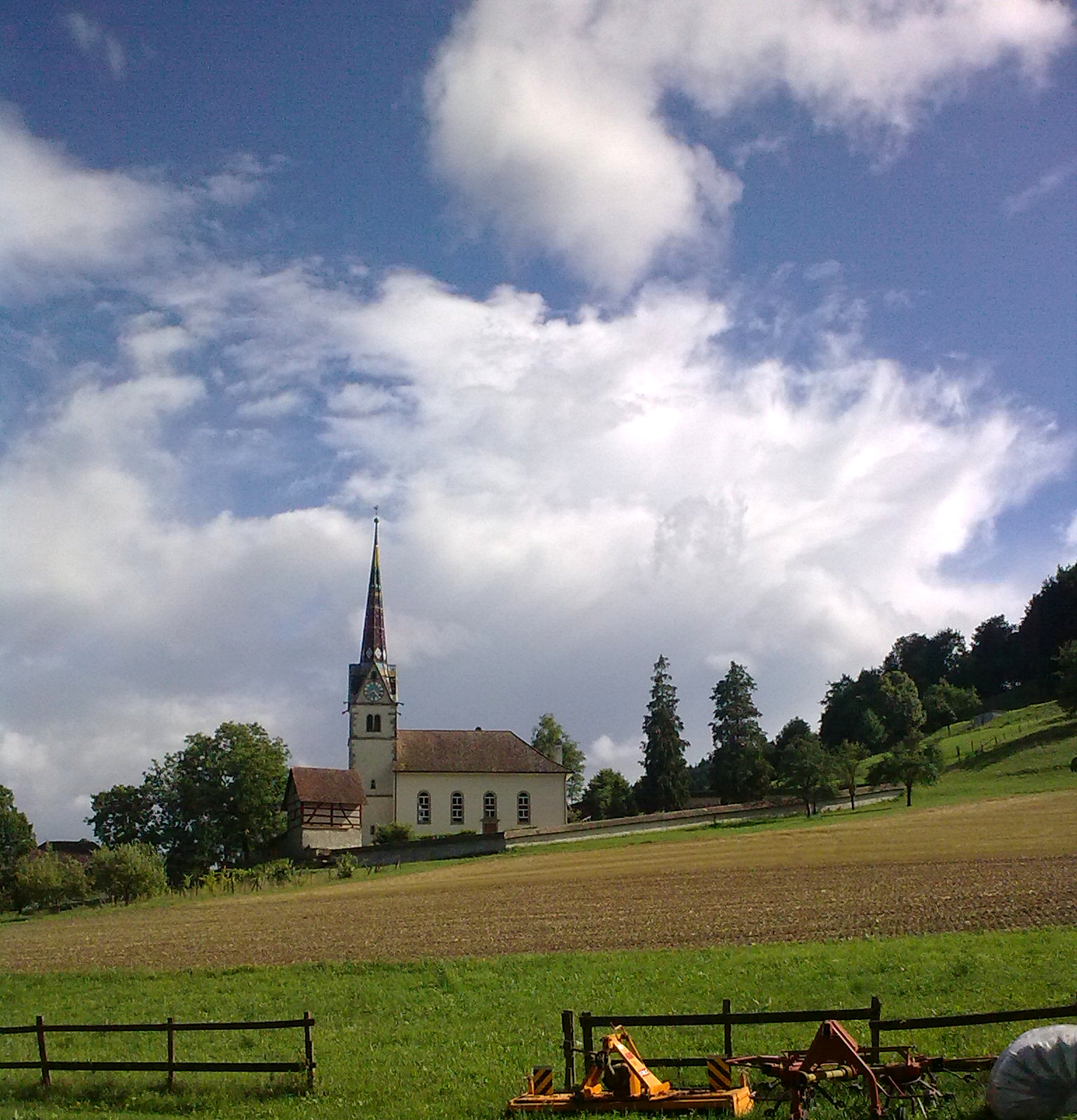 Church of Merishausen (Canton Schaffhausen, Switzerland)